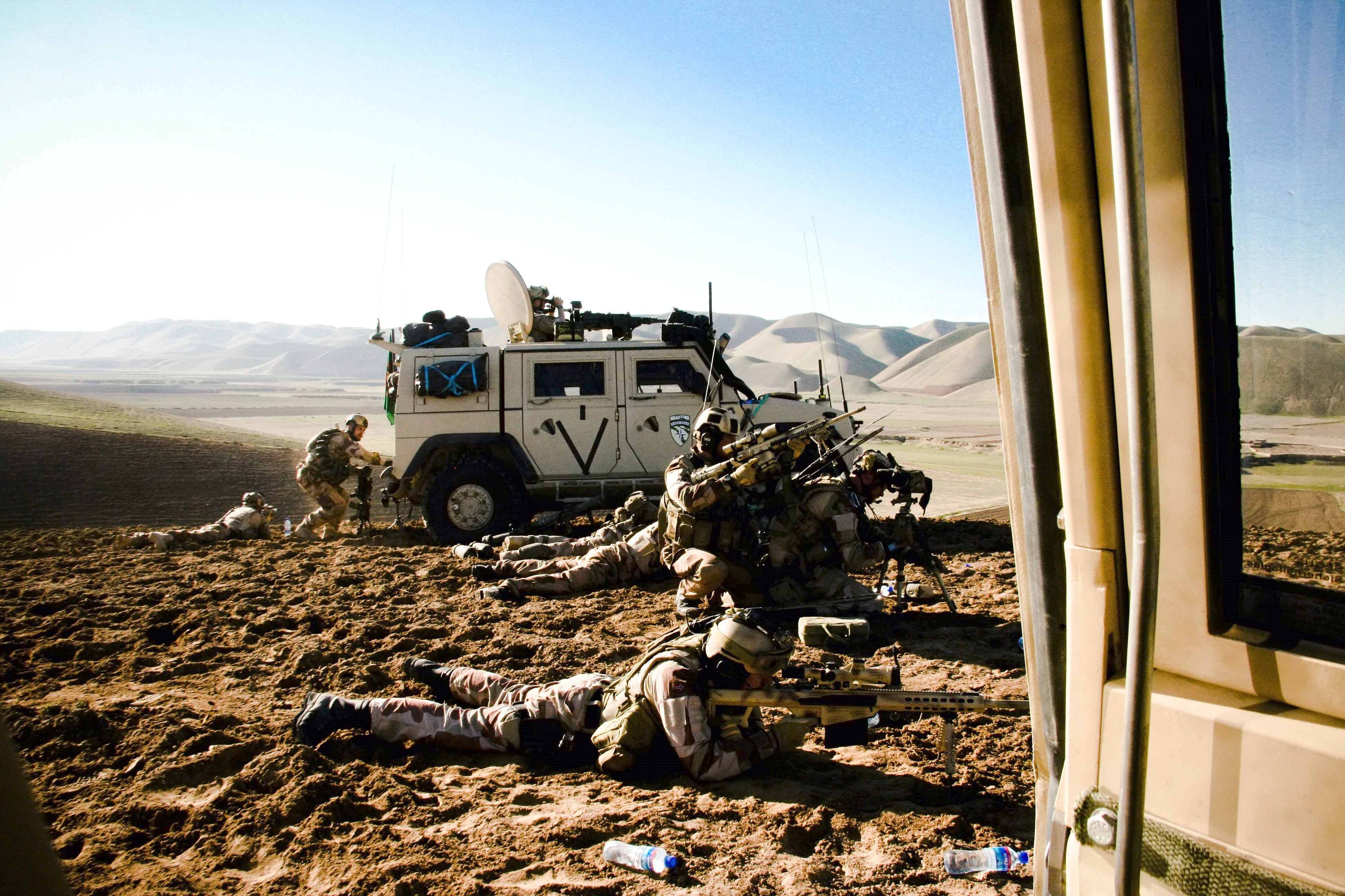 Norwegian soldiers from Telemark Battalion engage enemies from a long distance.